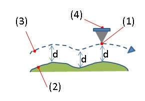 Schematics of Topographic image forming of AFM.